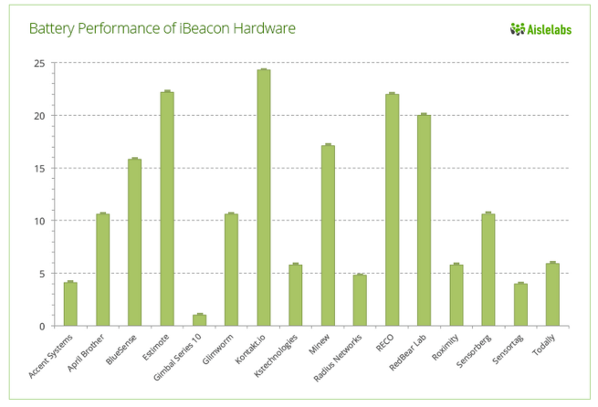 Experimental study on battery life of different beacons available in the market.[1]